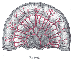 No caption.